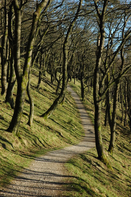 Path through Macclesfield Forest